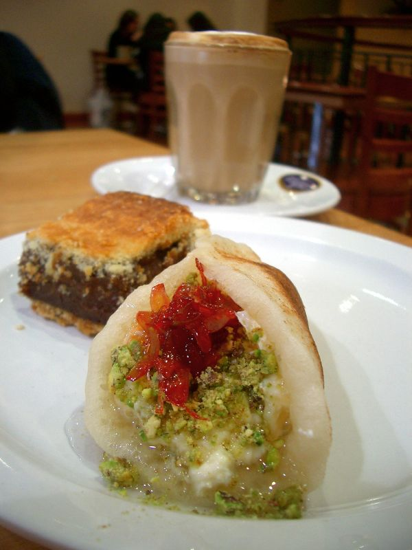 Atayef/ataif (front) and Date Ma'mul/Mamoul - Balha's Pastry, Brunswick We dropped by for afternoon tea at a Balha's Pastry, Brunswick, a Lebanese pattiserie, on Sydney Road, Brunswick I just had to explore this palatial looking pattisierie/cafe filled with exotic looking cakes & sweets. There was a curved staircase leading to the second floor area and a huge chandelier hanging from the second floor! The atayef was like a light chewy pancake filled with kaymak (a curd-cheese), with a texture like fresh mozzarella cheese, sprinkled with chopped pistachios and a red preserved fruit of some sort and drizzled with rose water syrup. What a magnificent dessert! The ma'mul has a rich butter pastry which almost crumbled in your mouth. It was barely held together by the smooth date puree filling with the occasional chunk of date flesh. Perfect with a strong cup of black coffee! or cafe latte :P From Postcards Episode of Sydney Road: Balha's Pastry has the most exquisite Lebanese pastry, where Lawrence was lucky enough to sneak a peek at how they create it. Situated in Melbournes famous Sydney Road, it is the perfect place to experience the true taste of Lebanon. Balha's Pastry 761-763 Sydney Road Brunswick Ph 03 9383 3944